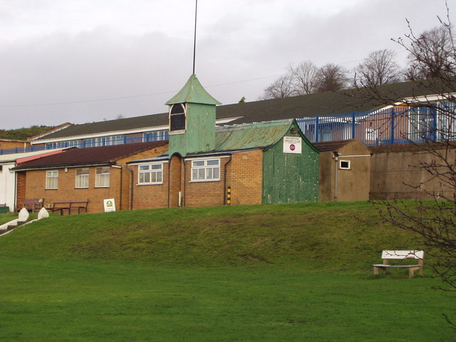 Netherton Cricket Club A view of the pavilion from Highbridge Road.